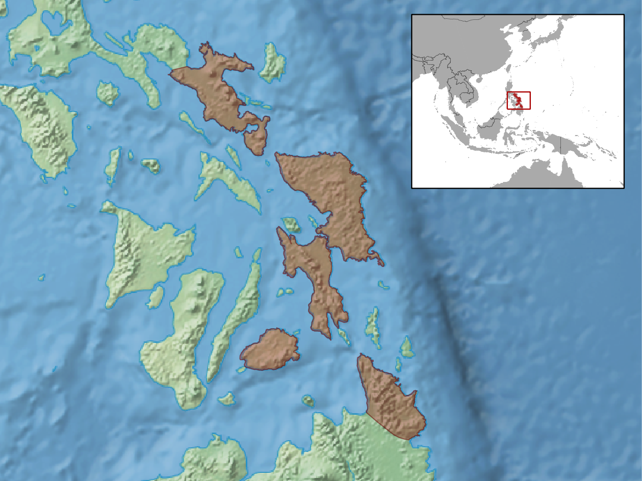 geographic distribution of Brachymeles samarensis